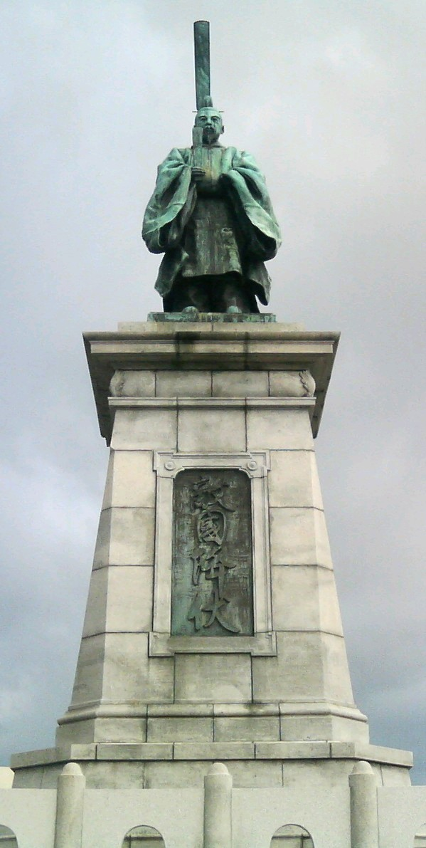 Statue of Emperor Kameyama located at Higashi Park in Fukuoka City, Fukuoka, Japan.